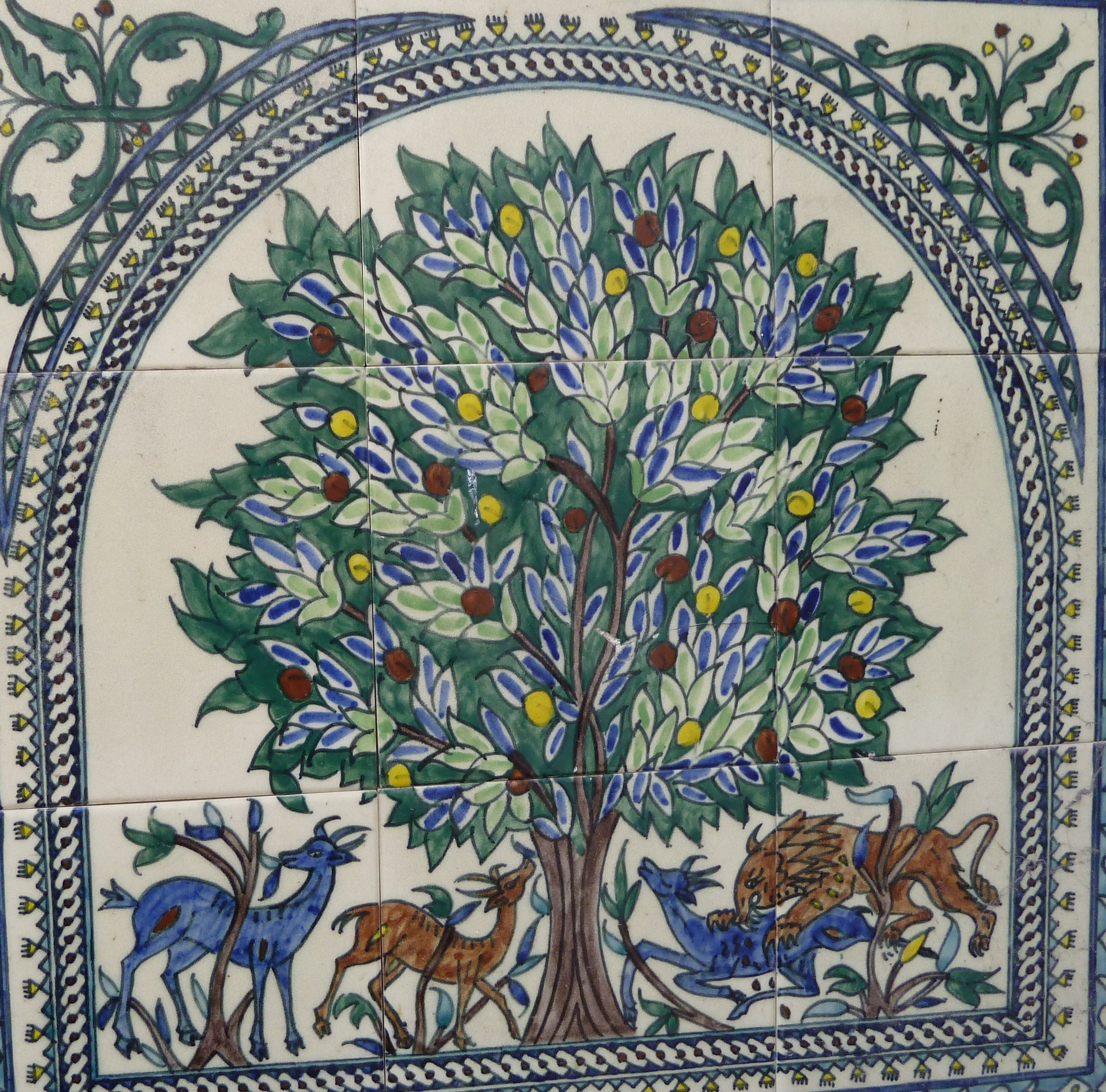 Marie Balian's Workshop, East Jerusalem, Israel